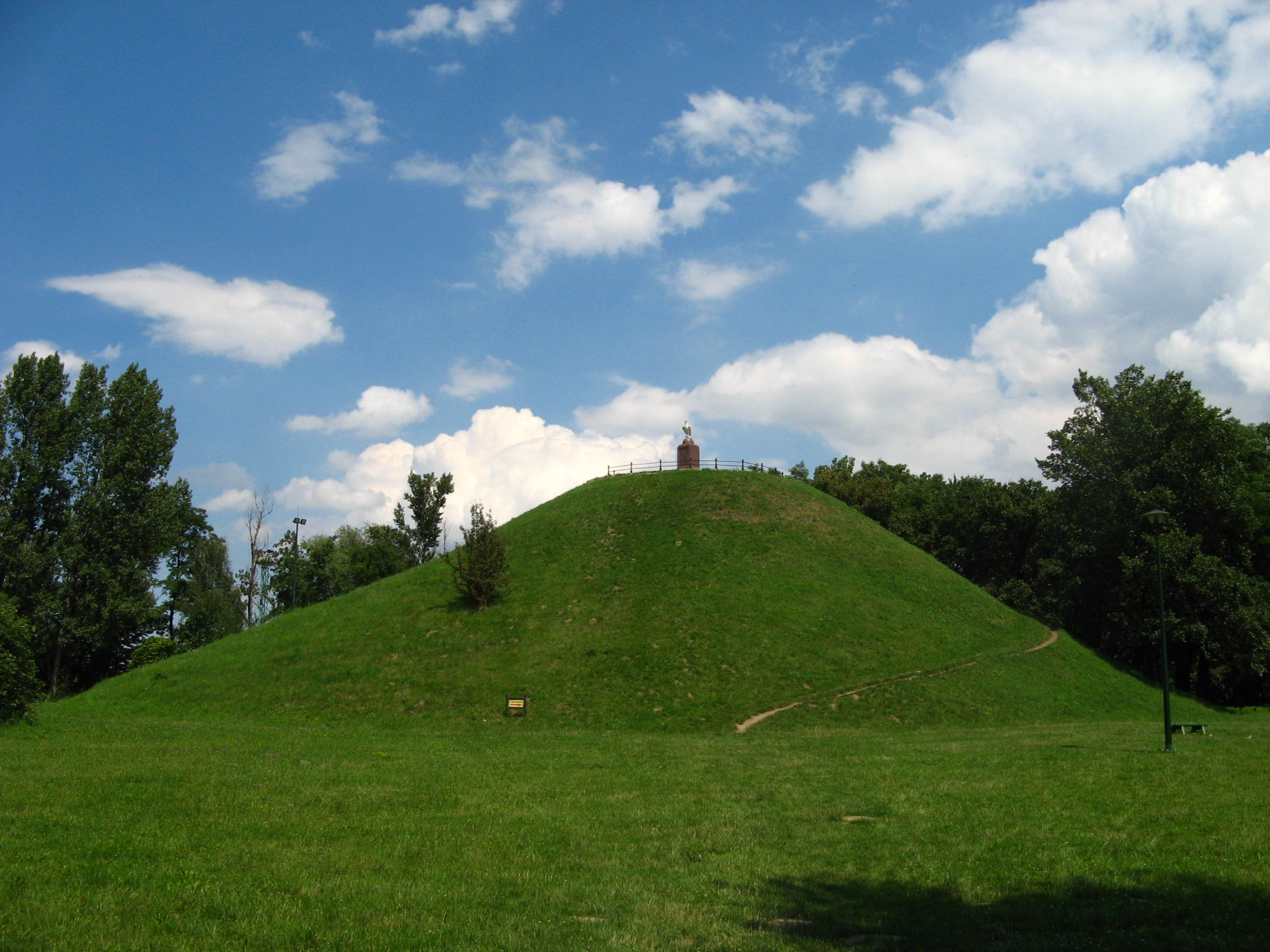 Wanda Mound